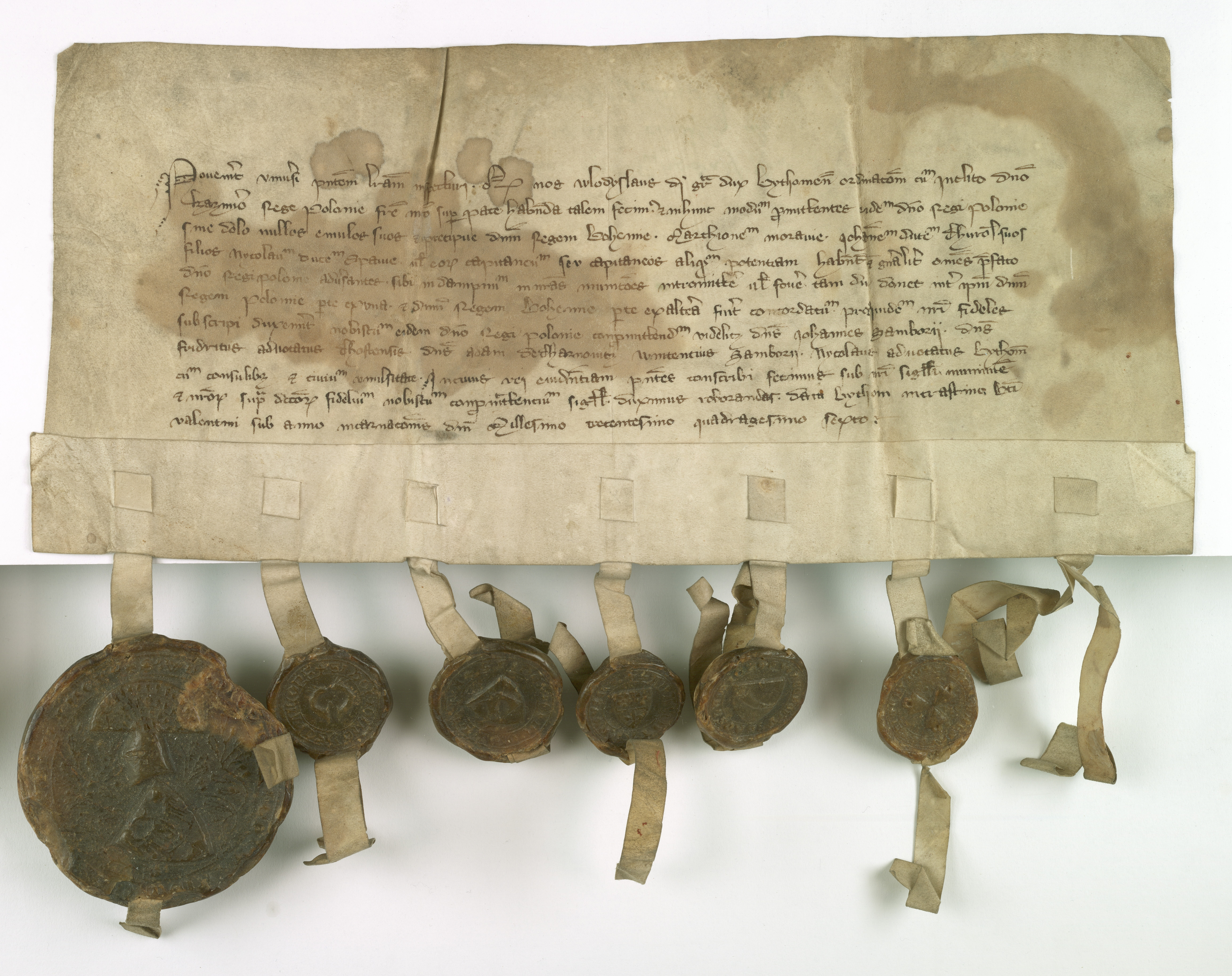 Wladyslaw, (Father) Bytom (Władysław of Bytom), agrees not to support anyone against the Polish king, Casimir the Great, and in particular the Czech king.